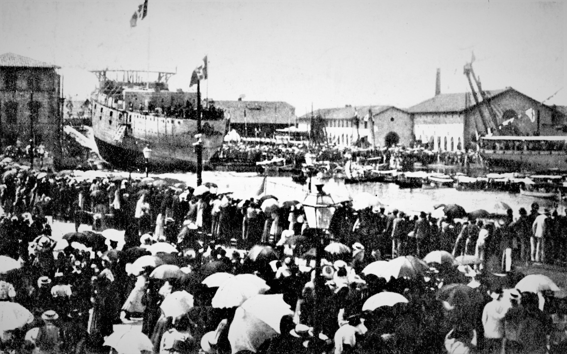 Italy, Livorno, Cantiere navale fratelli Orlando. The launch of the Italian cruiser Pisa.